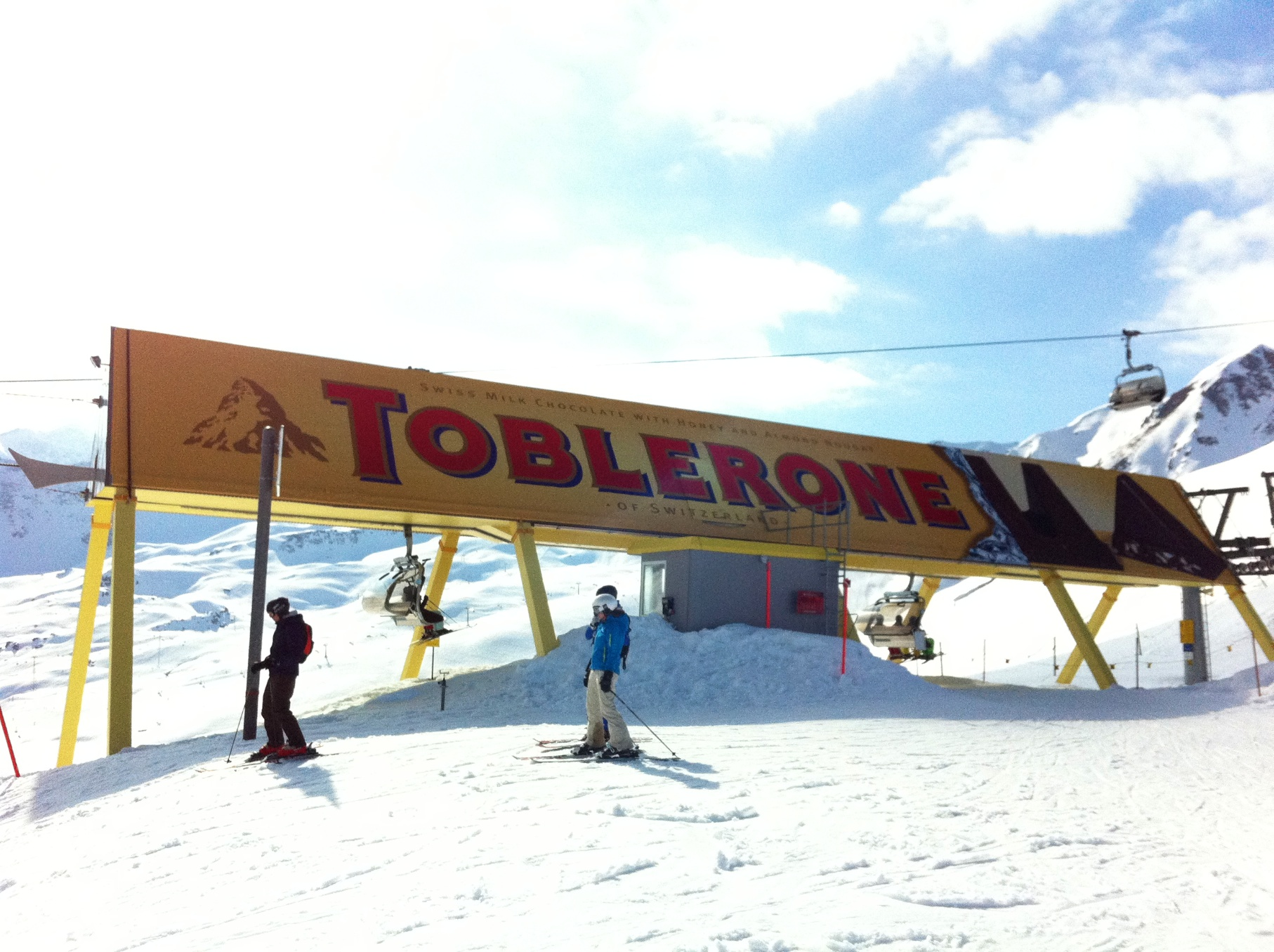 Middle Station of chairlift Carmenna, Arosa/Switzerland, with mounted Toblerone banner ad